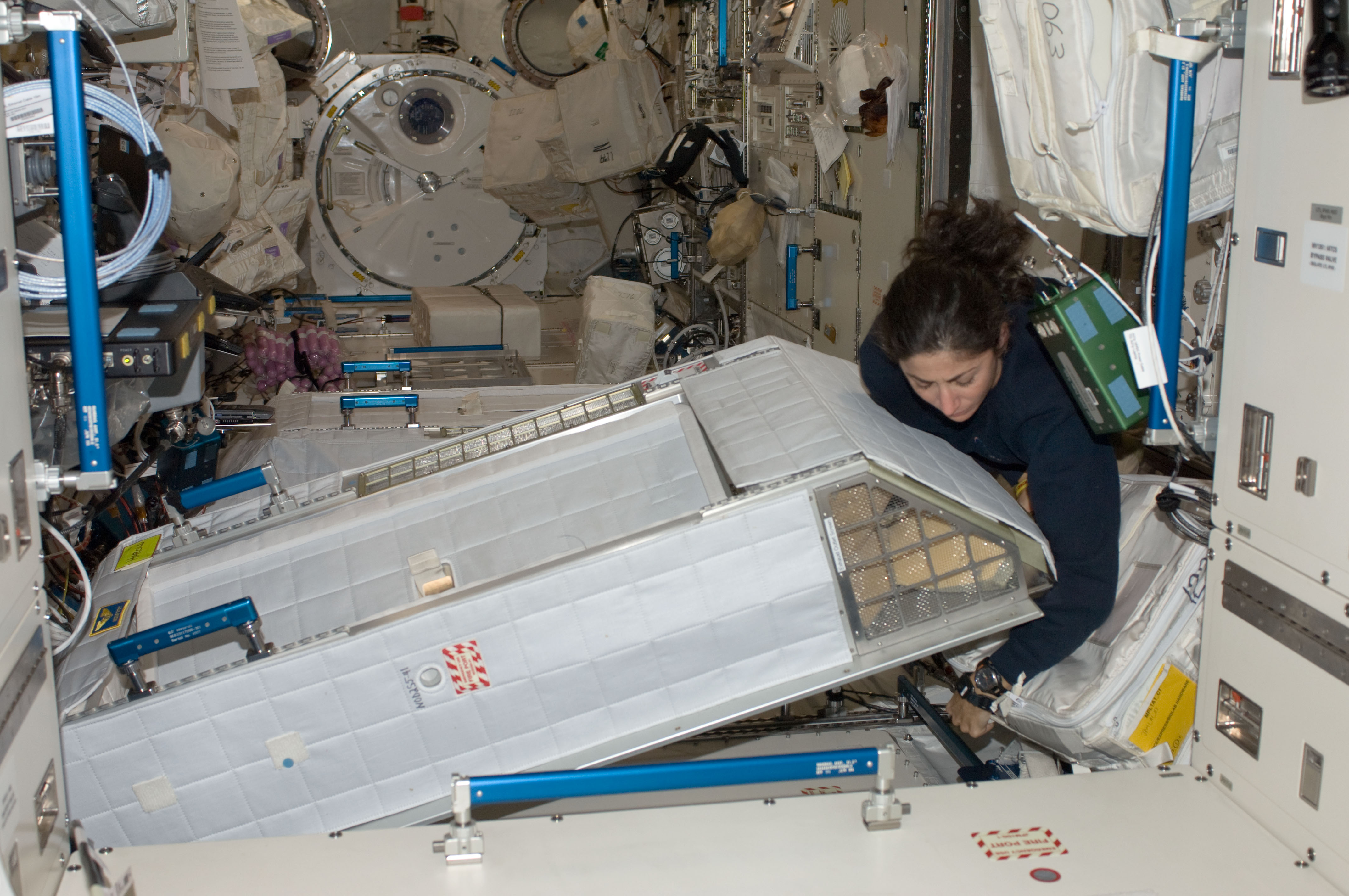 NASA astronaut Nicole Stott, Expedition 20 flight engineer, works with her crew quarters compartment in the Kibo laboratory of the International Space Station.